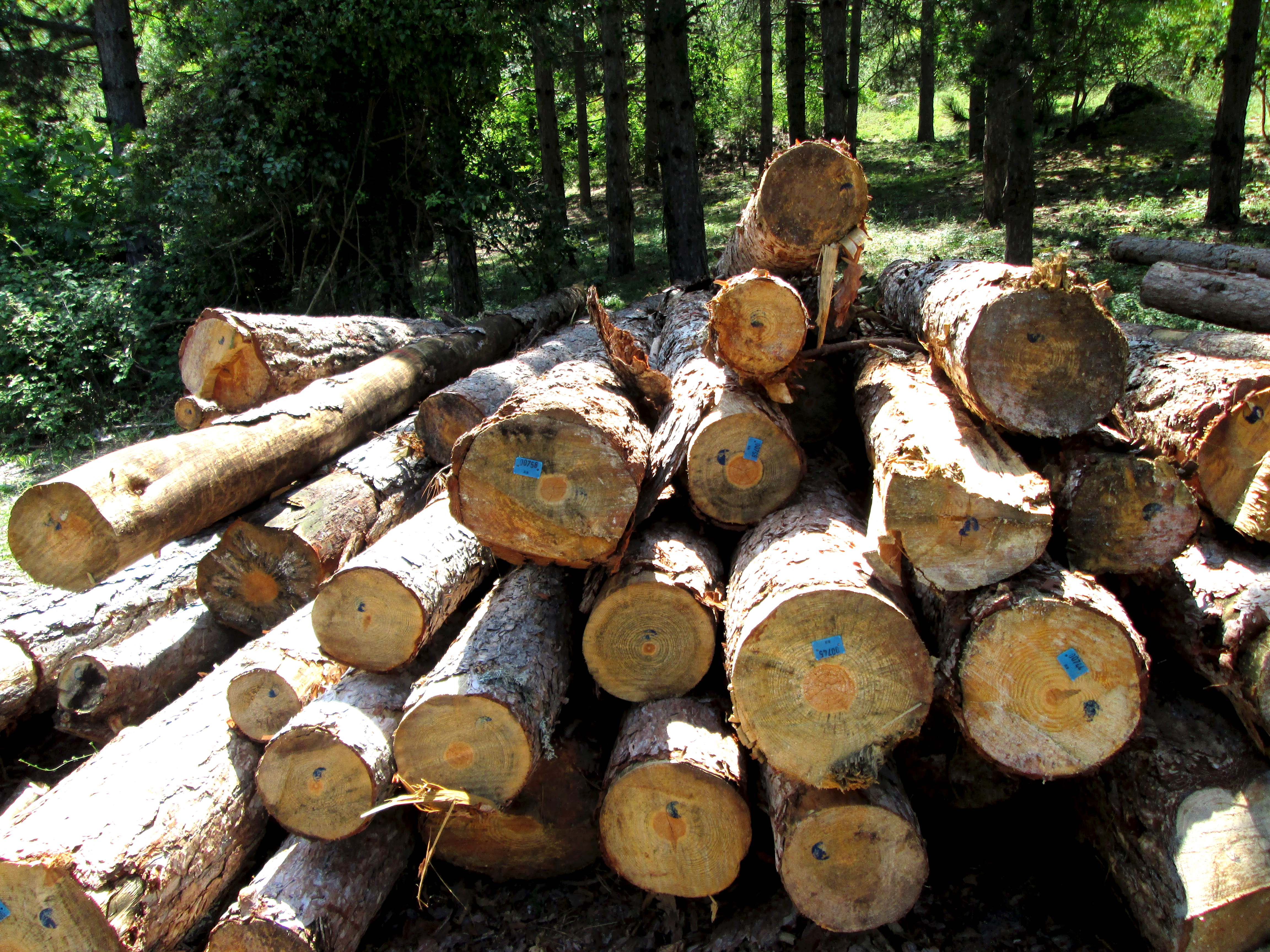 Forest along the Radika River